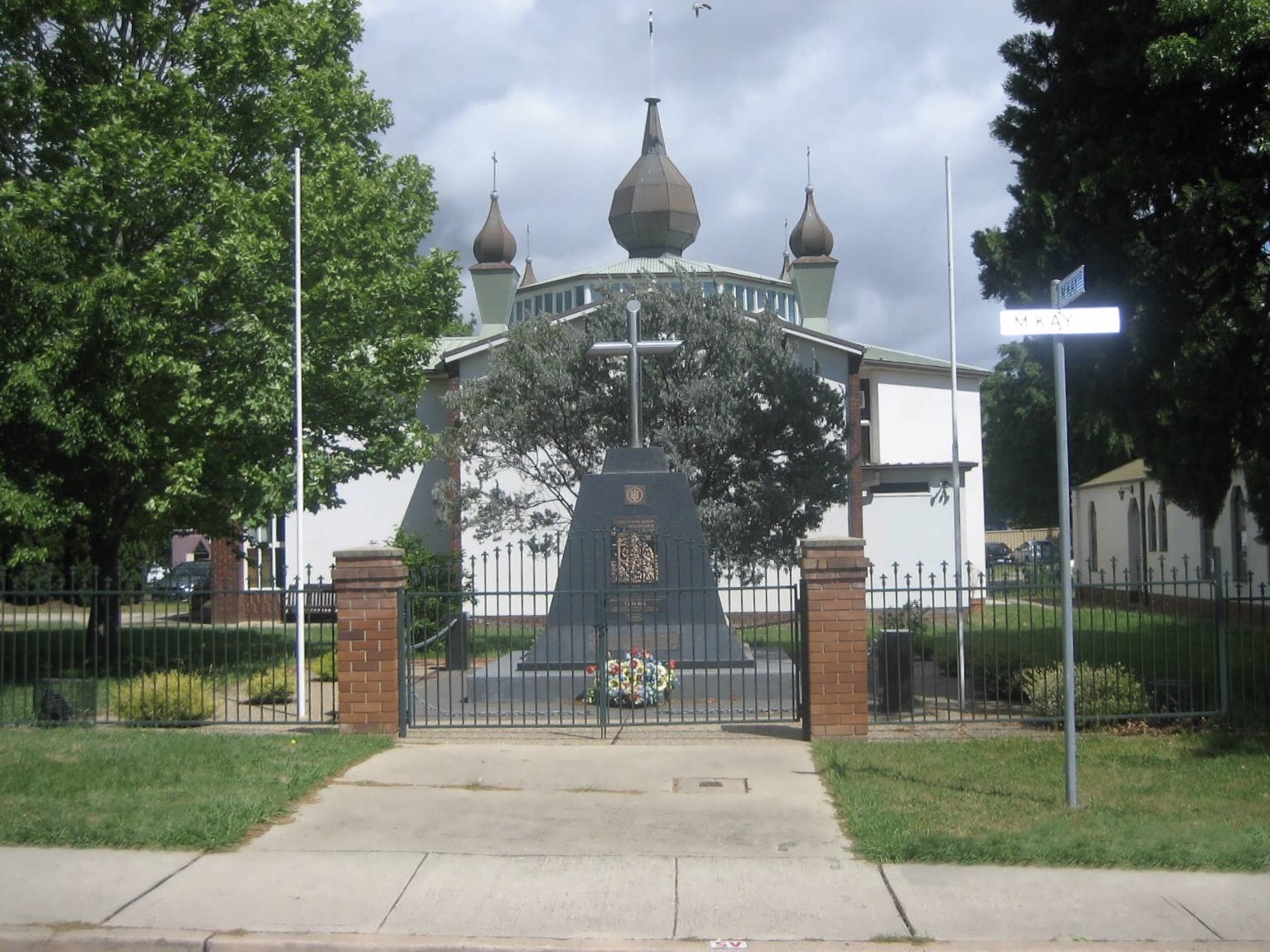 Ukrainian Orthodox Centre. Canberra